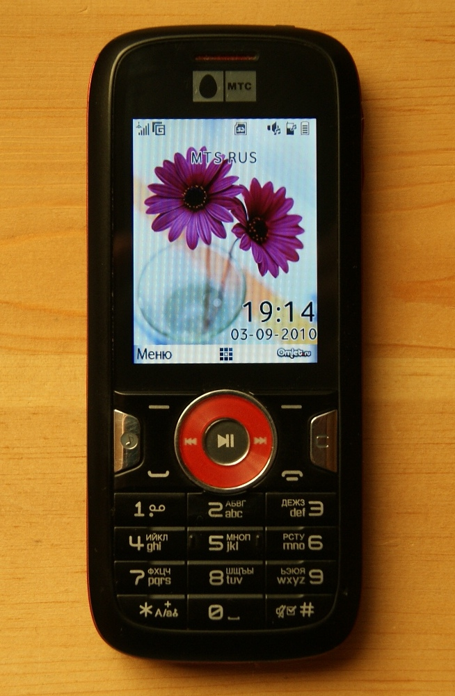 Front side of MTS 733 mobile phone